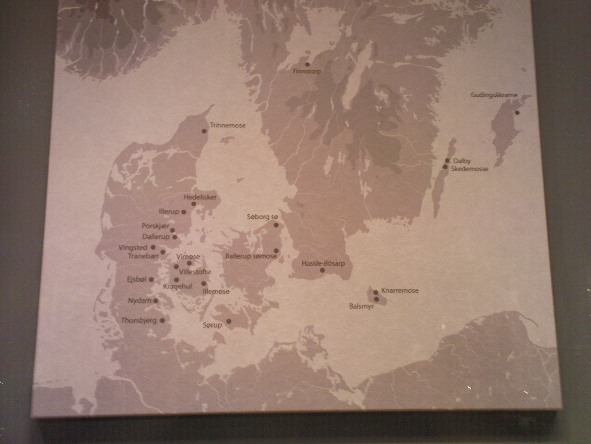 Major prehistoric votive offering sites in Scandinavia.